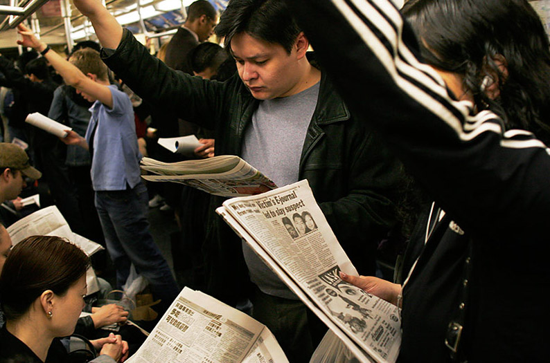 Description: F Train, Manhattan-bound, 17 May 2005 9:25am. New York's subway ridership comprises much of the city's newspaper readership base. Location: New York